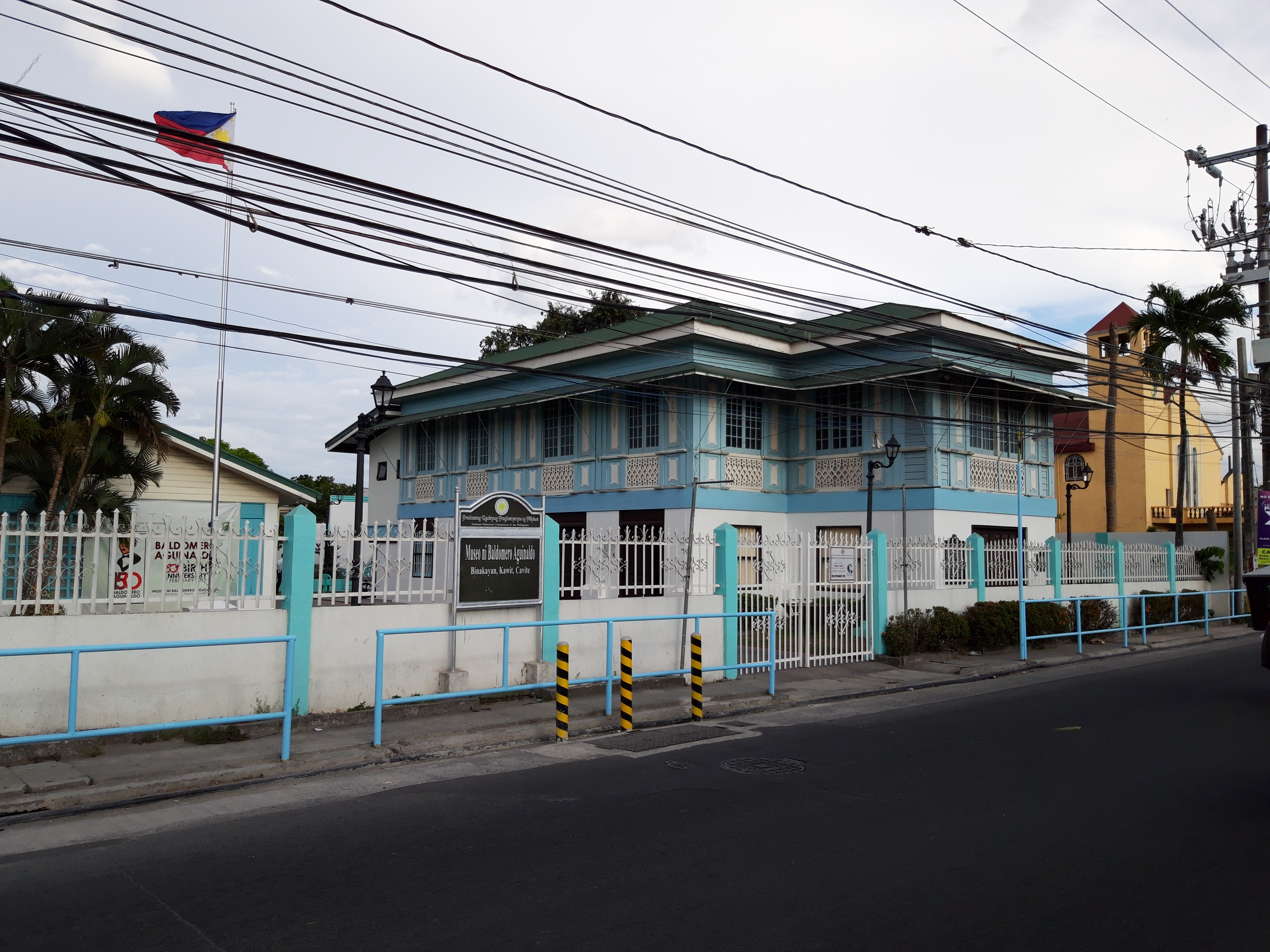 Frontage of the Baldomero Aguinaldo Museum with the ancestral house and museum proper to the right and a Philippine flag on the left.